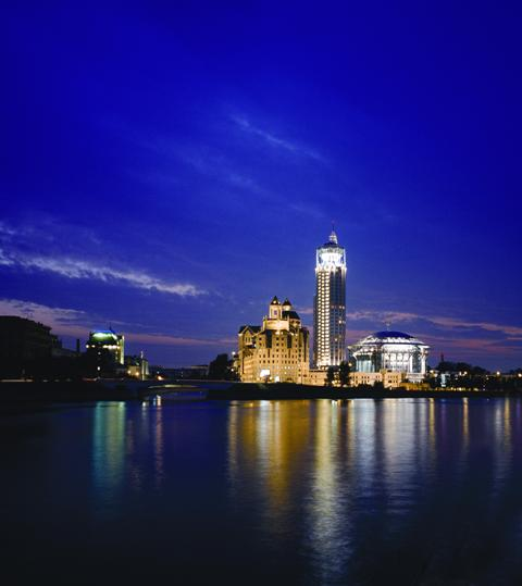 Beautiful view on Swissotel Krasnye Holmy Moscow, located on the island between Moscow river and Vodootvodny Channel